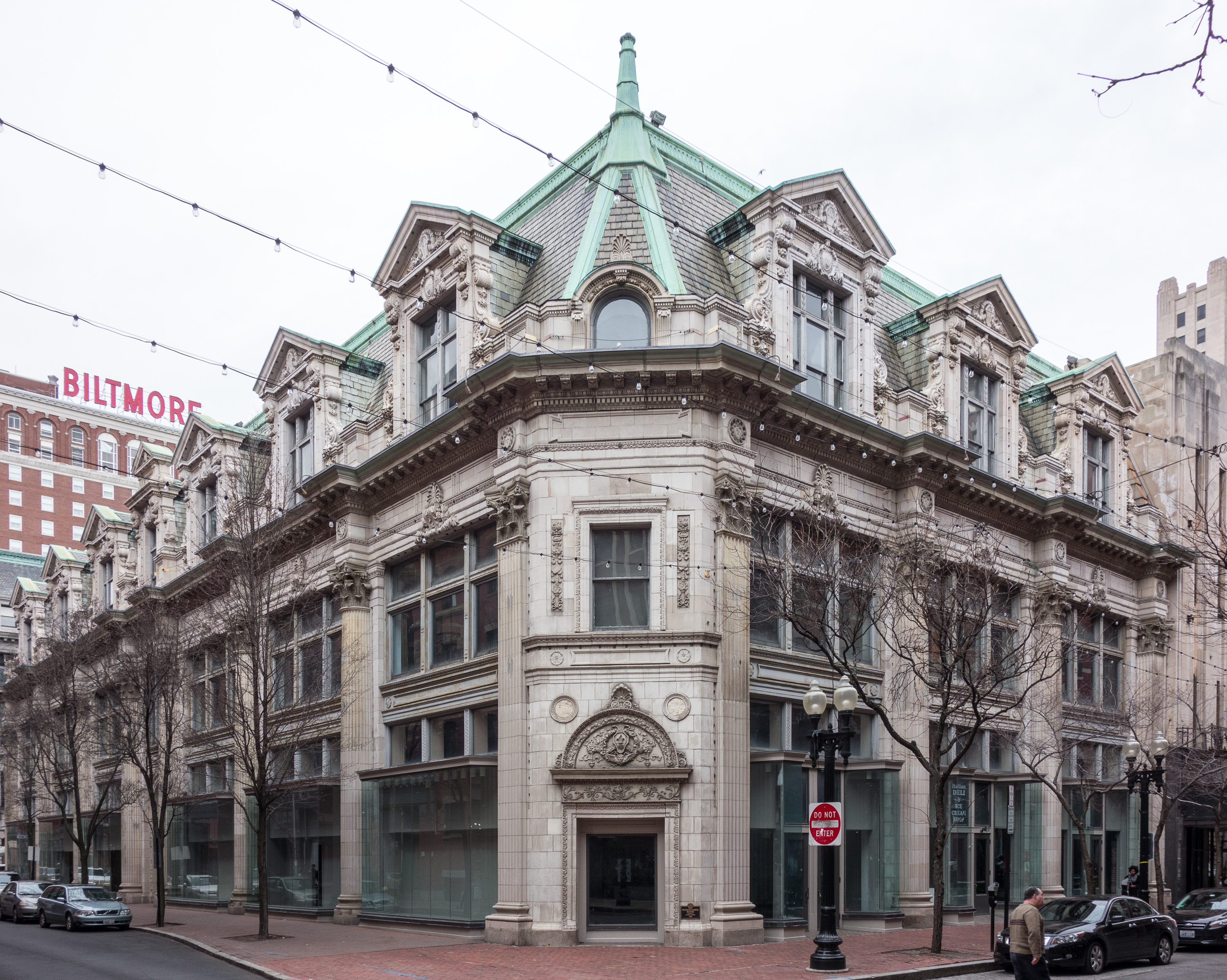 Providence Journal Building, Providence, RI. 203 Westminster St. (northeast corner of Eddy St.). Peabody and Stearns, 1906. "one of Providence's best early 20th century commercial buildings."